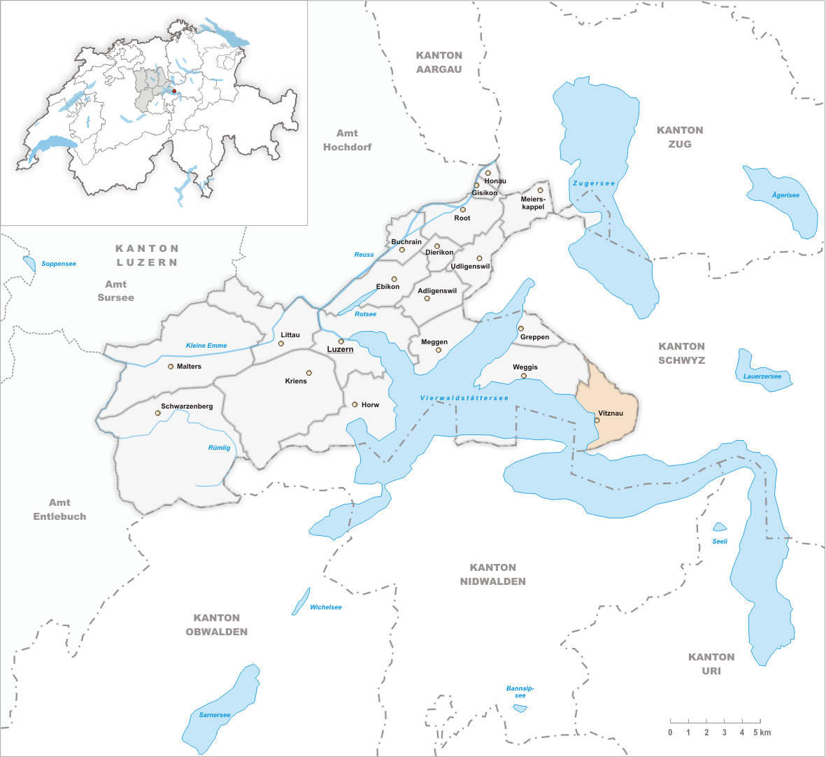 Municipality Vitznau